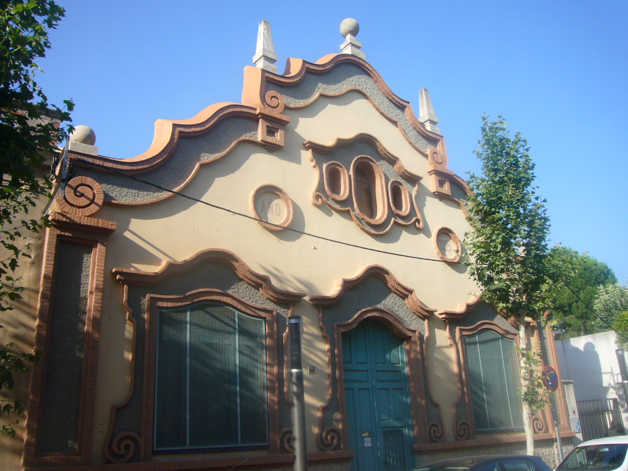 Fàbrica Roca i Clos